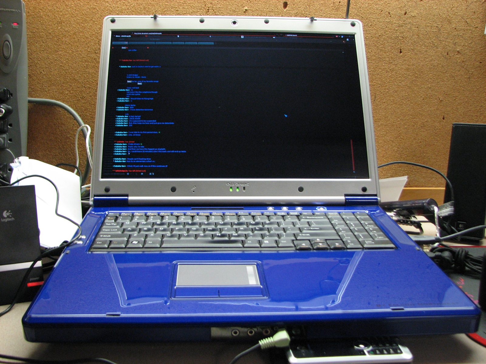 Example of Falcon North West's custom paint work.